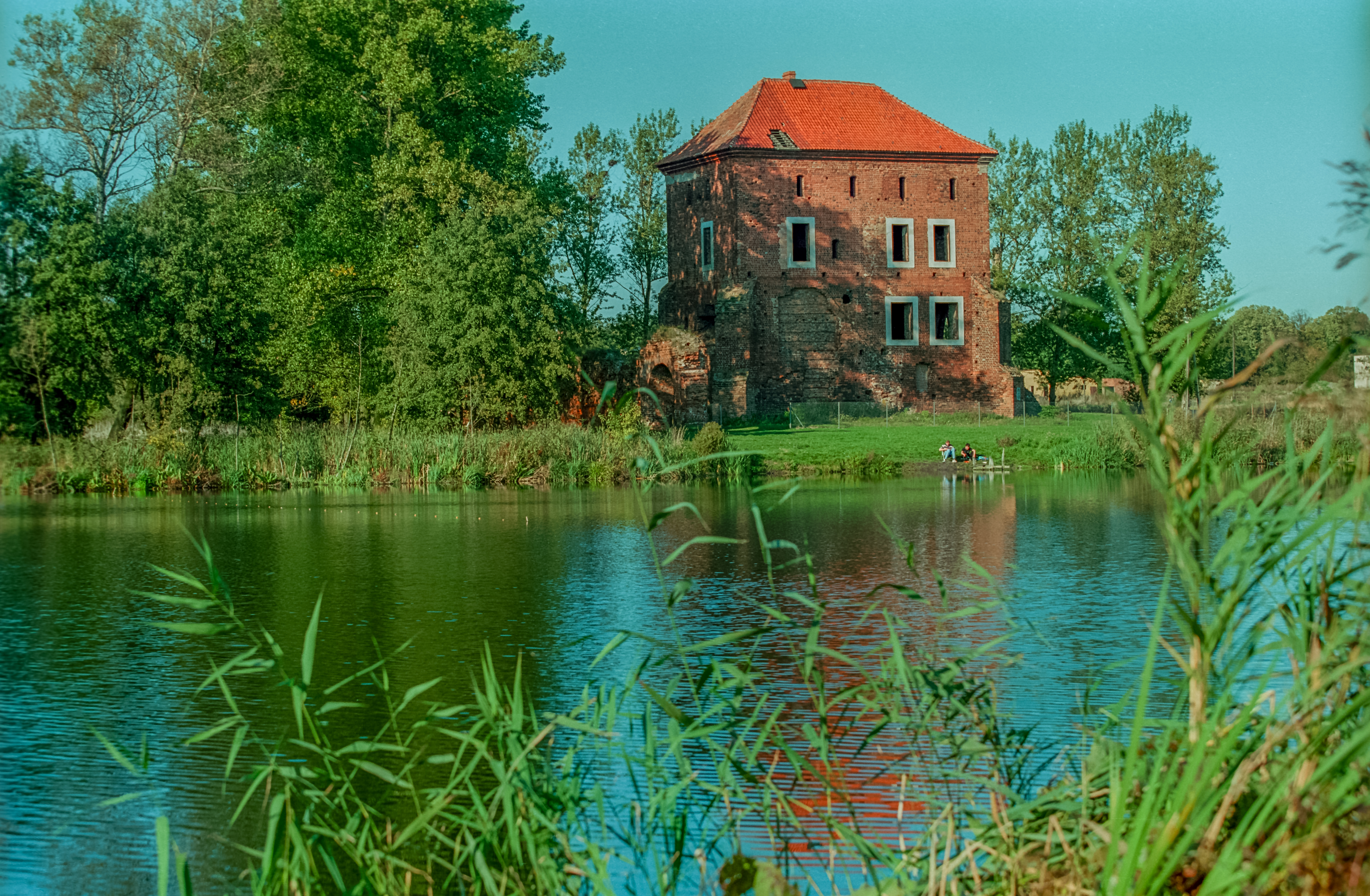 Poland, Golancz Castle